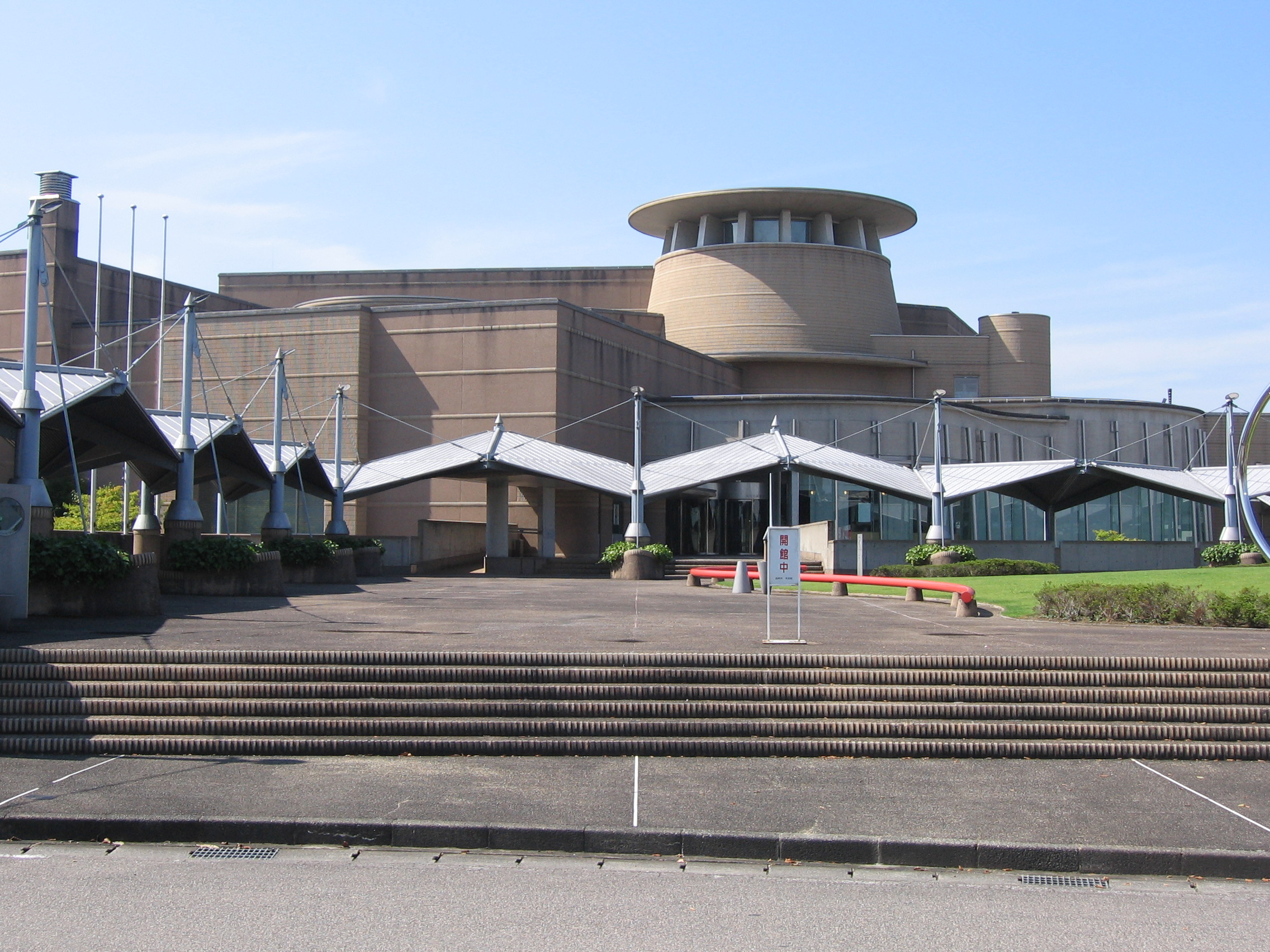 Takaoka Art Museum